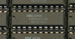 A 256Kx4 Dynamic RAM chip on an early PC memory card. (Photo by Ian Wilson)